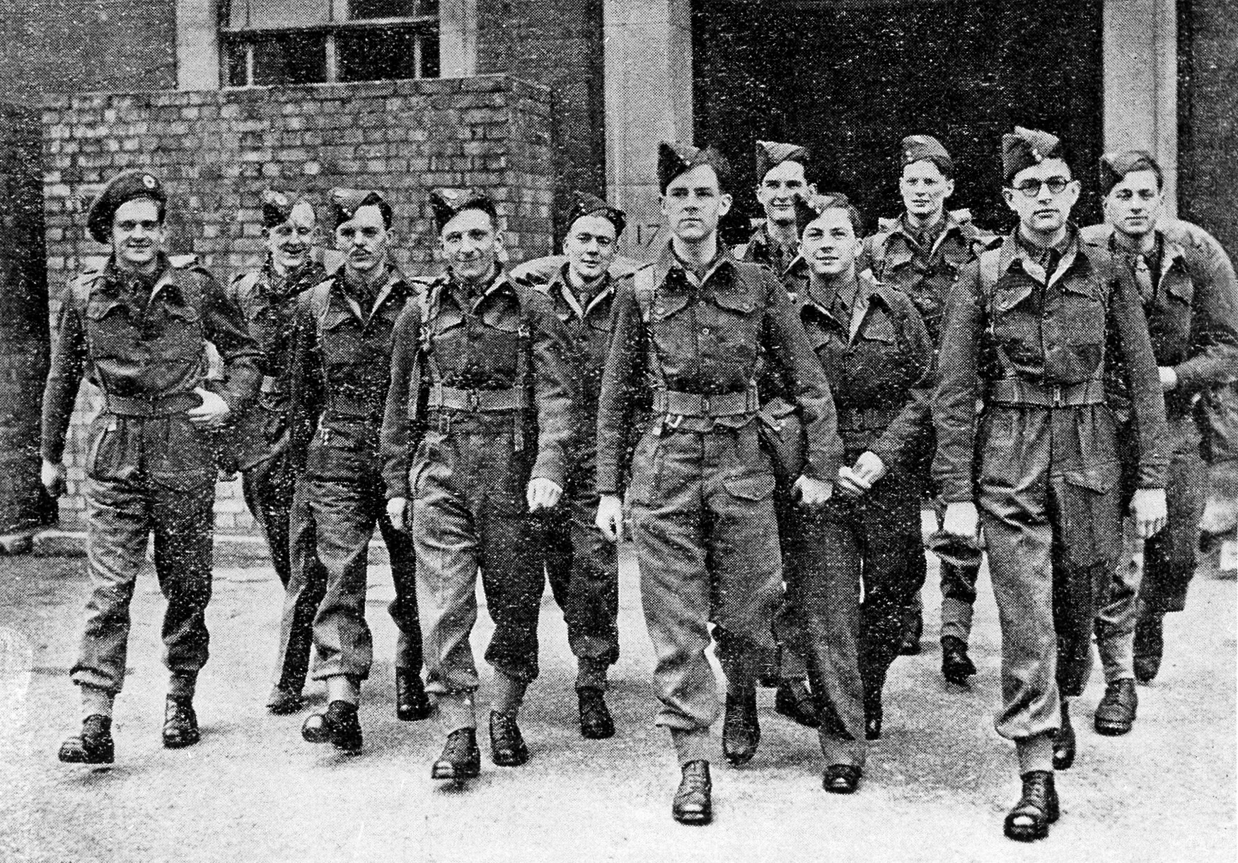 Group of Westminster hospital medical students who worked at Belsen after its liberation by the Allies. Archives & Manuscripts Keywords: Allen Percival Prior; Bergen-Belsen